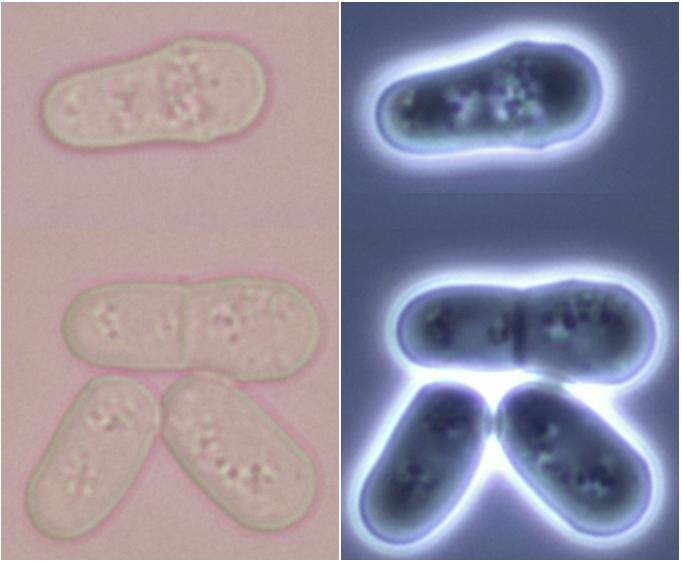 Division stages of Schizosaccharomyces pombe in bright field (left) and dark field (right) light microscopy (Zeiss Axiostar, 100x objective, oil immersion), compound picture